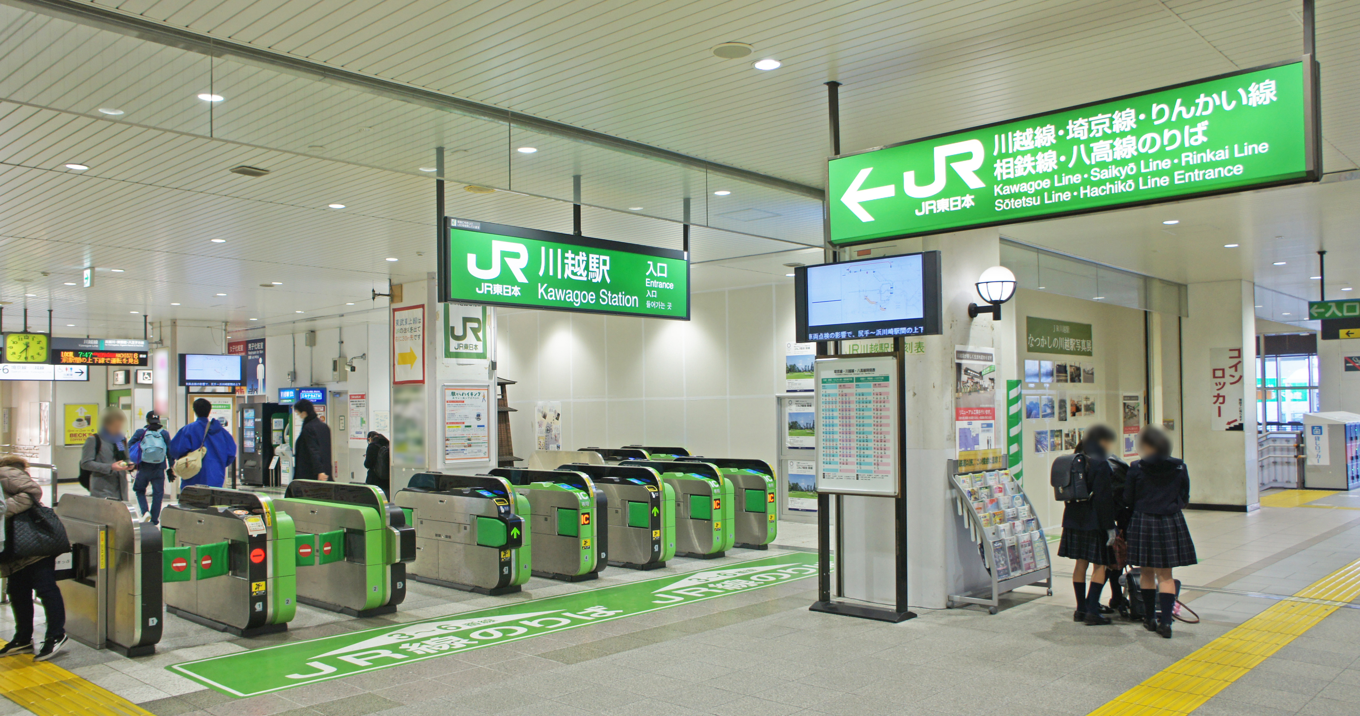 Gates of JR Kawagoe-Line Kawagoe Station